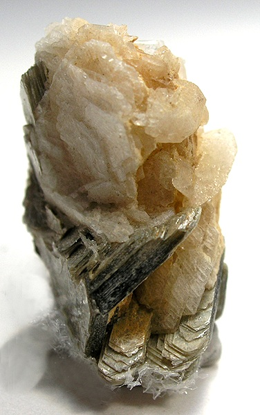 Hydroxylherderite, Albite (Var.: Cleavelandite), Muscovite Locality: San Diego County, California, USA (Locality at ) Rare locality piece with sharp, thin white hydroxylherderite xls on matrix. self collected 2.3 x 1.5 x 1.1 cm